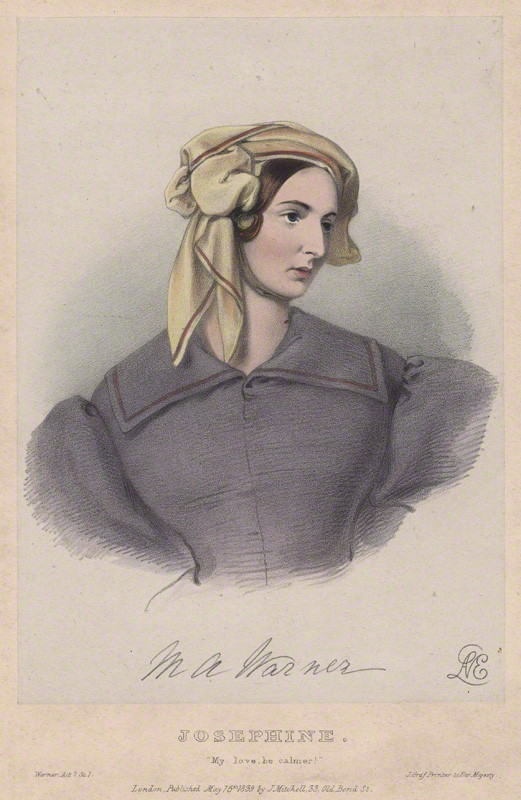 Portrait of Mary Amelia Warner (1804–1854), English actress and theatre manager.